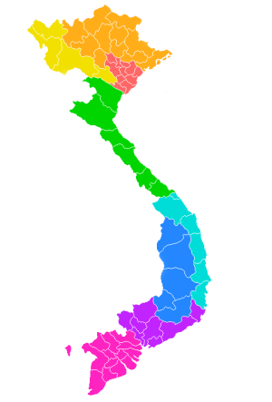 Vietnam regions without legend Orange: Northeast Yellow: Northwest Red: Red river delta Green: North Central Coast Cyan: South Central coast Blue: Central highlands Purple: Southeast Magenta: Mekong river delta